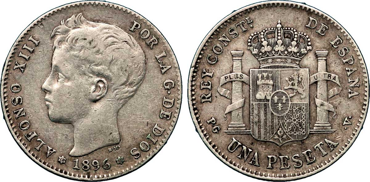 1 Peseta à l'effigie d'Alphonse XIII, 1896